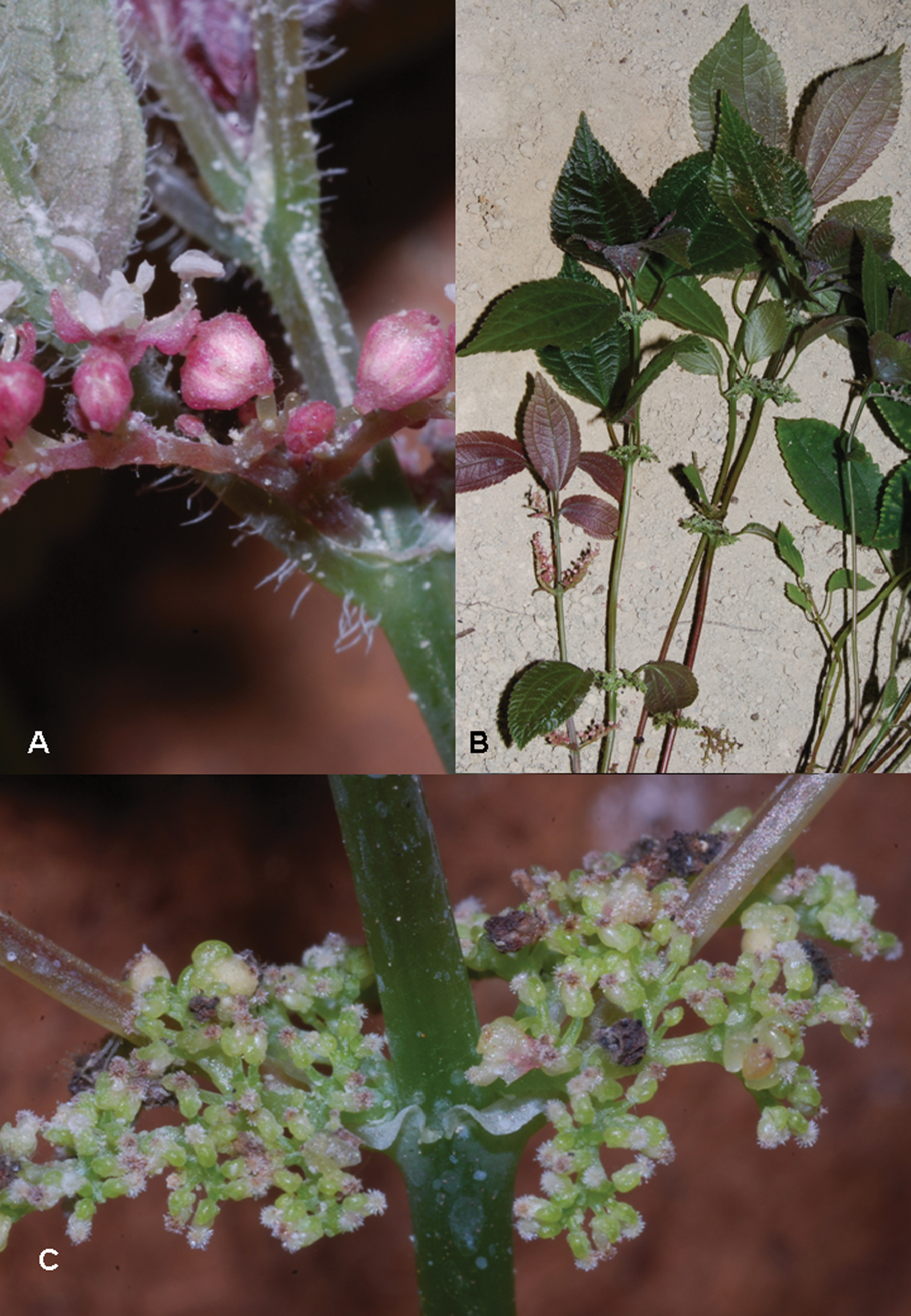 Collage of images of Pilea cavernicola (A.K. Monro, C.J. Chen & Y.G. Wei), sp. nov. including closeups. Published by Pensoft under a Creative Commons Atribution License (CC-BY). Authors are A.K. Monro, C.J. Chen & Y.G. Wei.